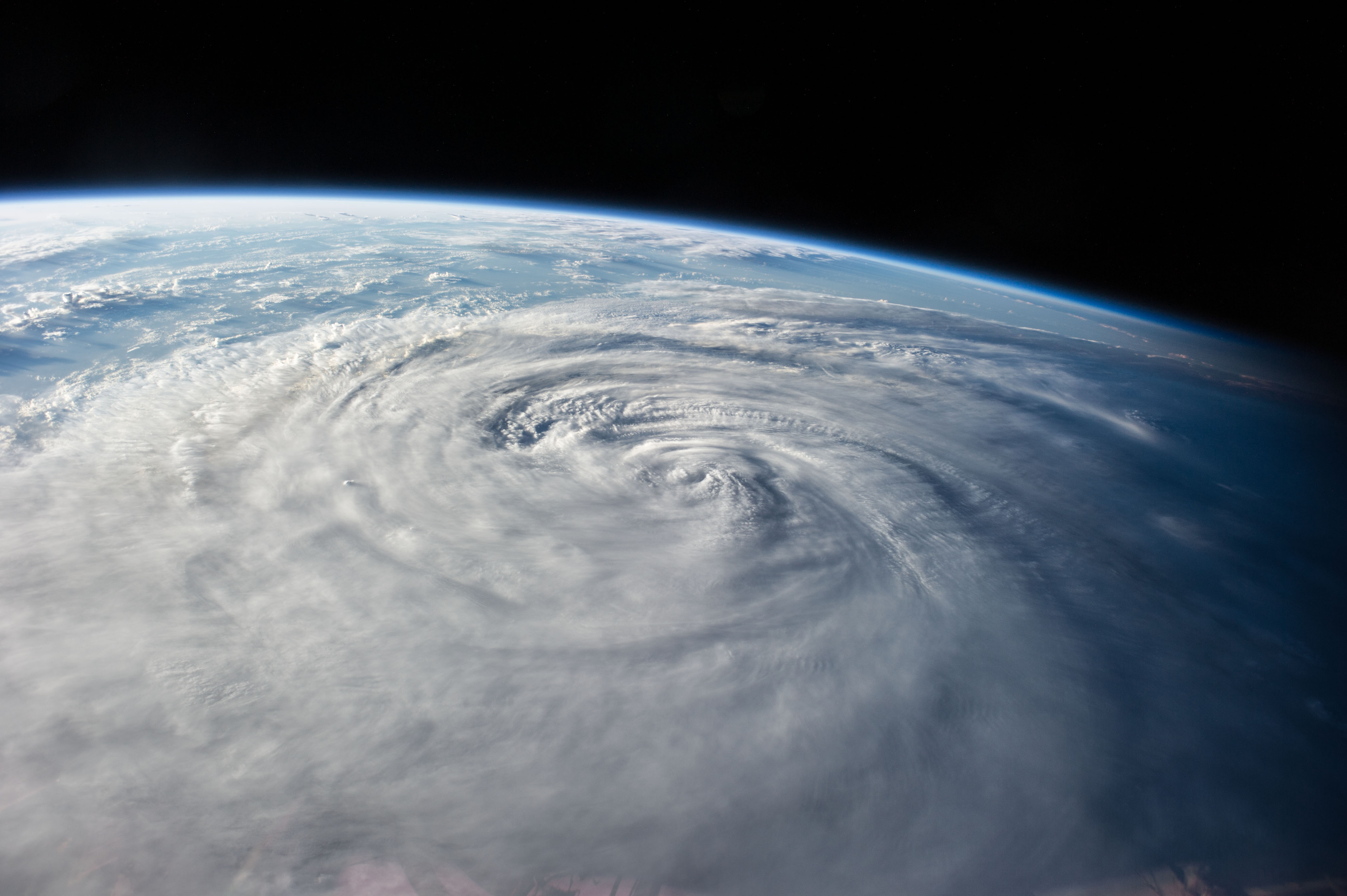 One of the Expedition 40 crew members onboard the International Space Station captured this oblique image of Typhoon Halong at 09:37:54 GMT on Aug. 5, 2014. The orbital outpost was at a position 225 miles above Earth over a point located at 14.2 degrees north latitude and 128.7 degrees east longitude.